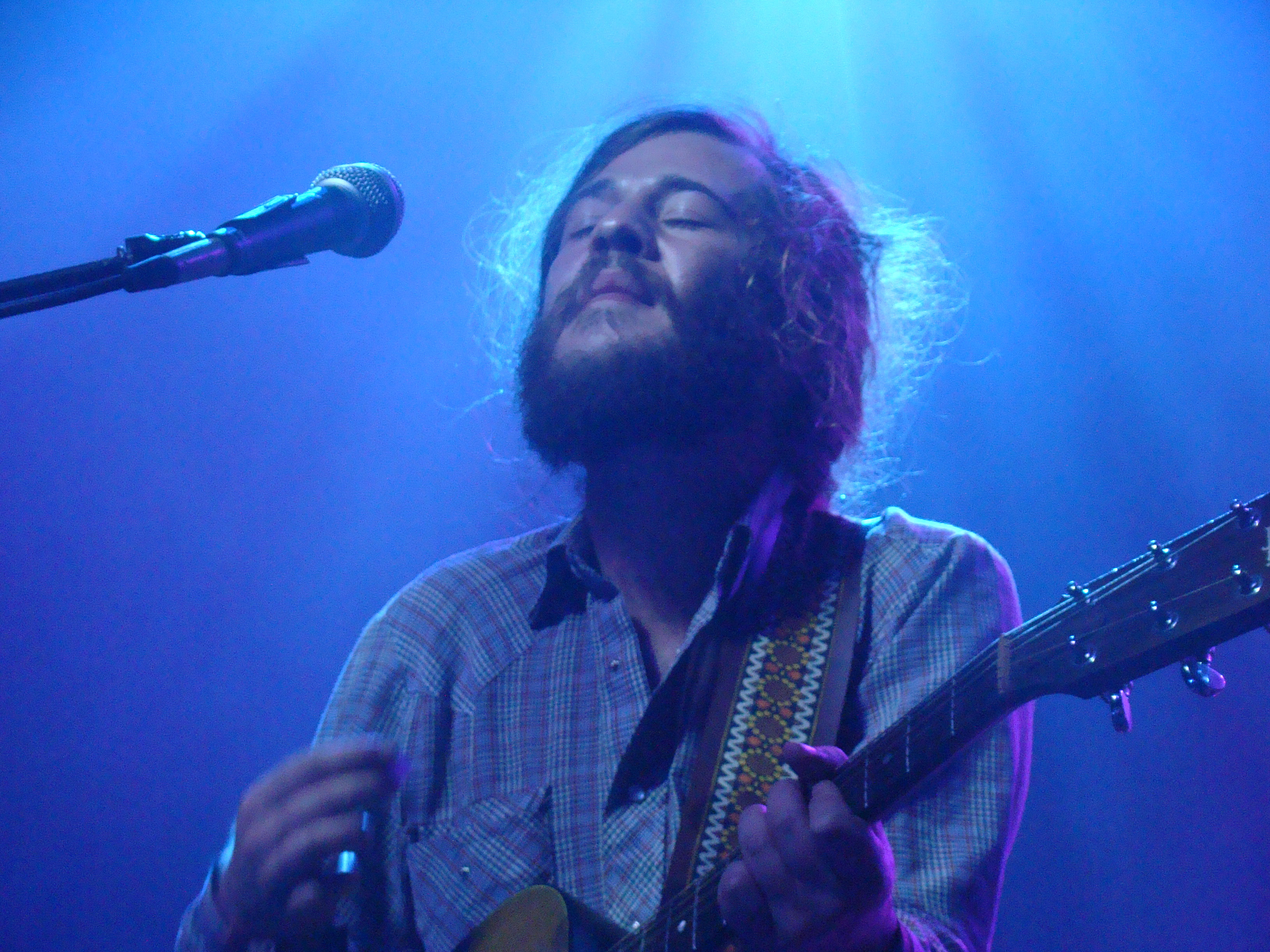 Singer and guitarist Jesse Tabish of the band Other Lives.